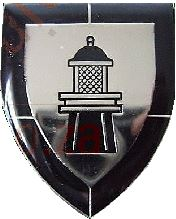 SADF Regiment Algoa Bay emblem